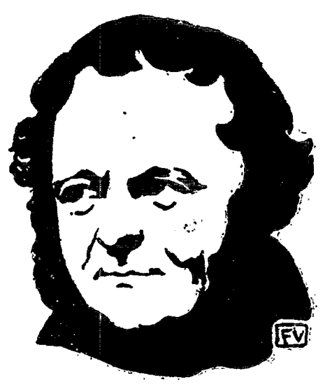 Portrait of French writer Stendhal (1783-1842) by Félix Valloton (1865-1925)